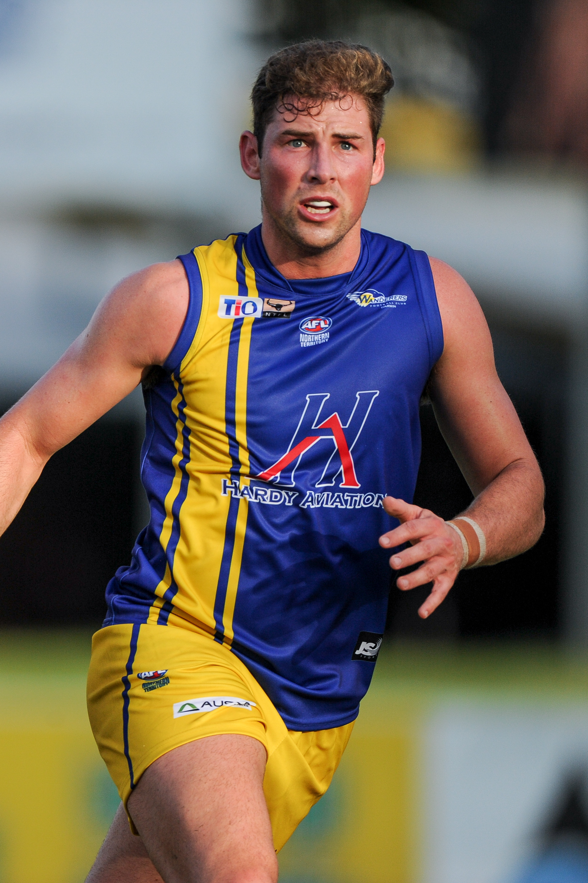 Brett Eddy of the Wanderers Football Club in the NTFL round 9 match against the Darwin Football Club on 2 December 2017 at TIO Stadium in Darwin, Northern Territory.